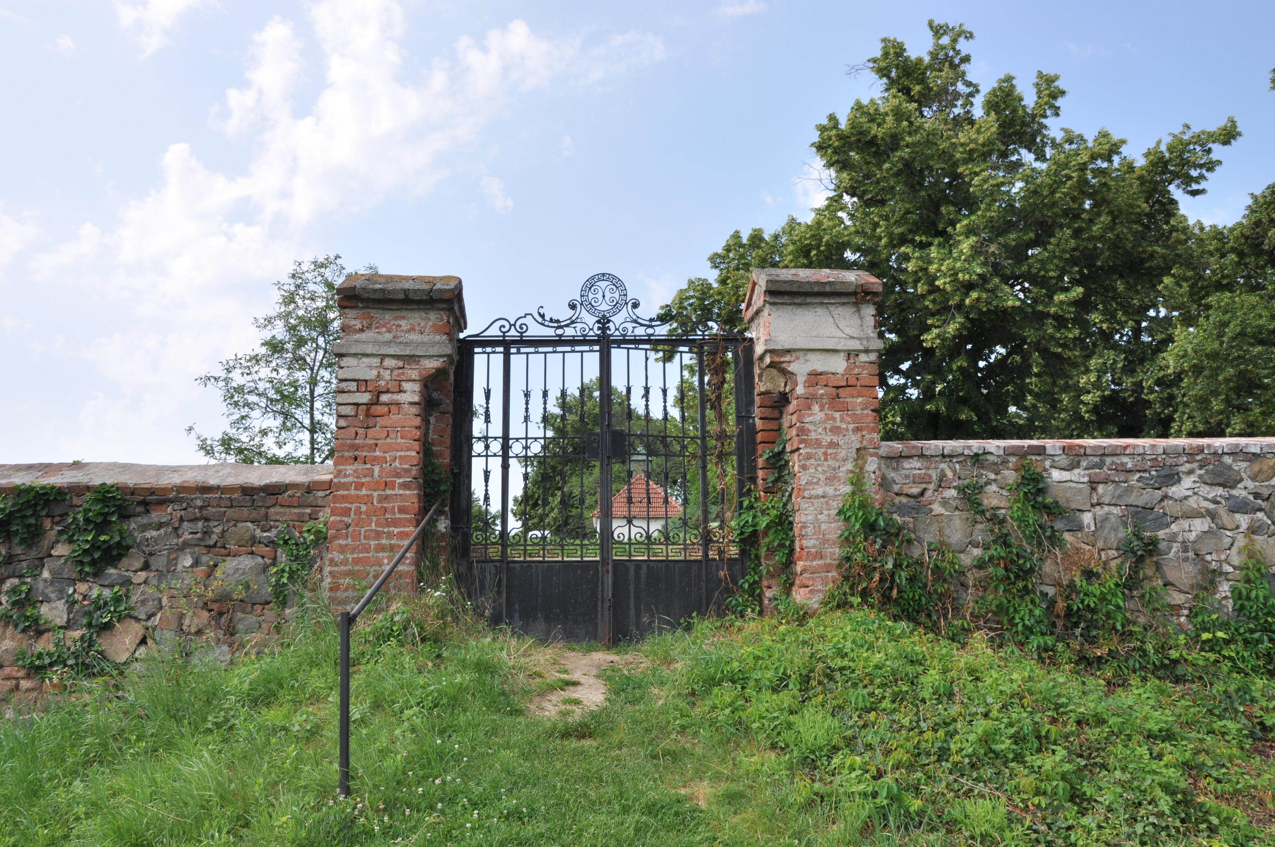 Dolní Kounice, Brno-Country District, Czech Republic. Jewish cemetery.